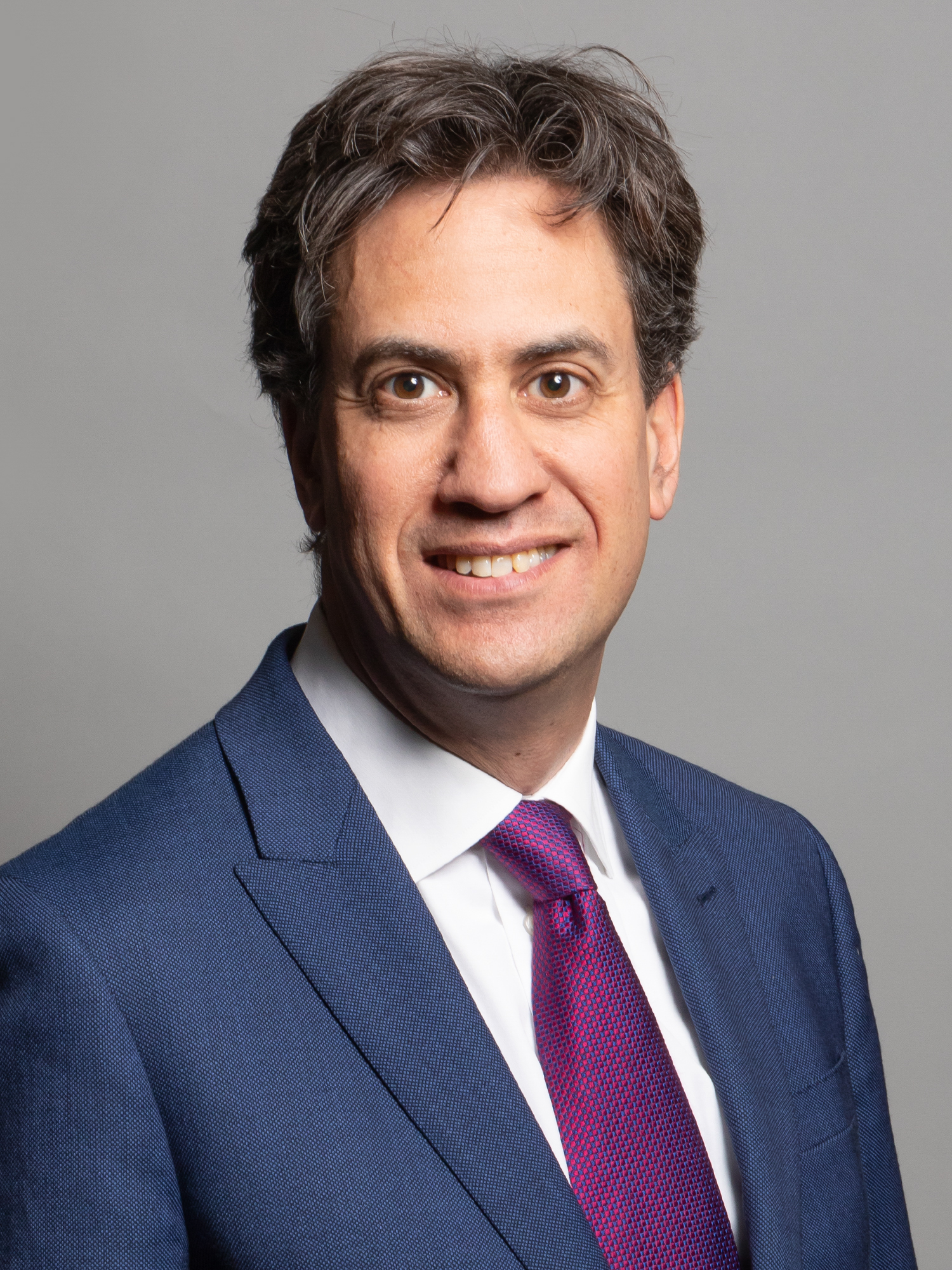 Official portrait of Rt Hon Edward Miliband MP 3×4 portrait of Edward Miliband